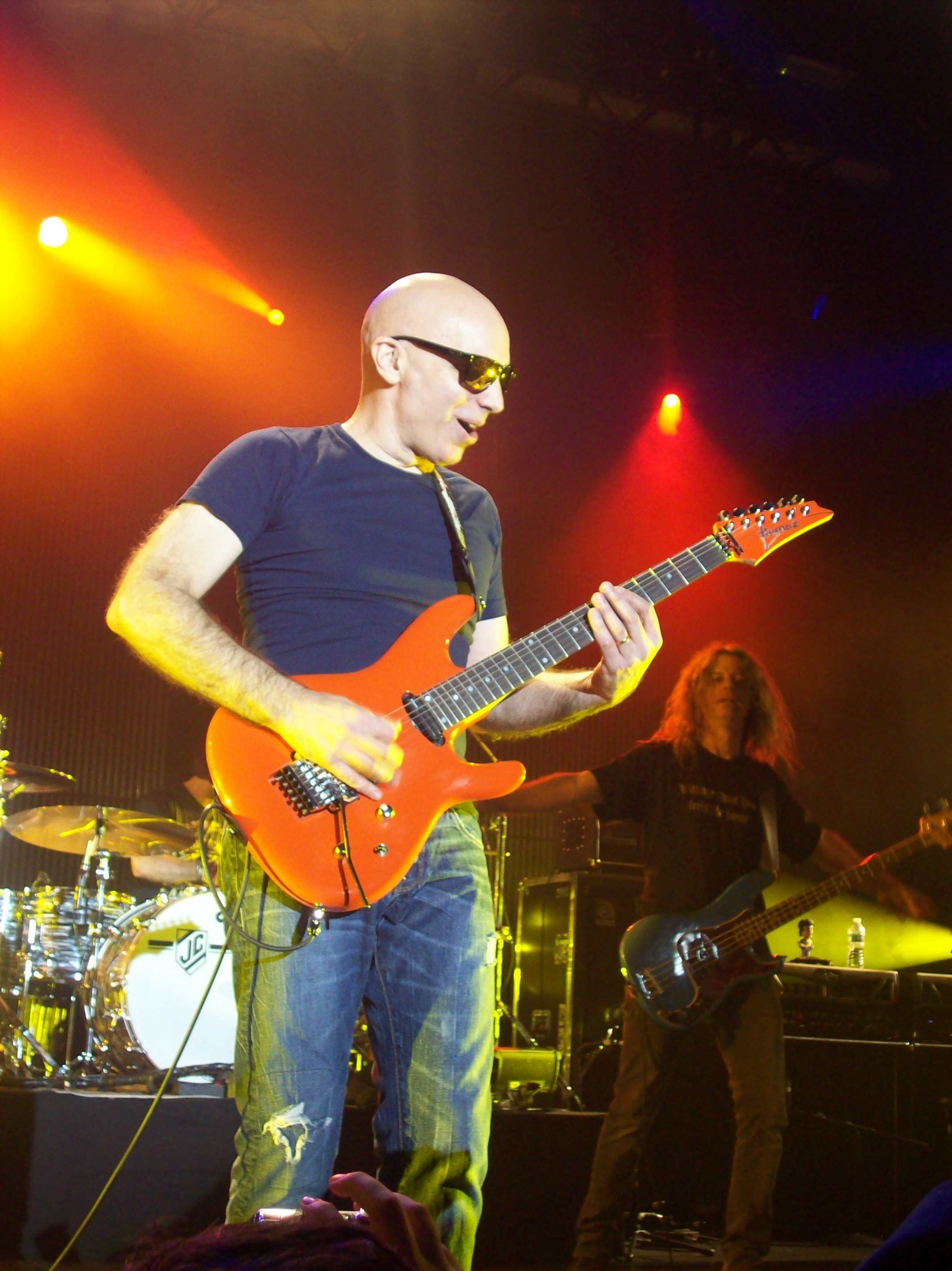 Joe Satriani, New York, 2010